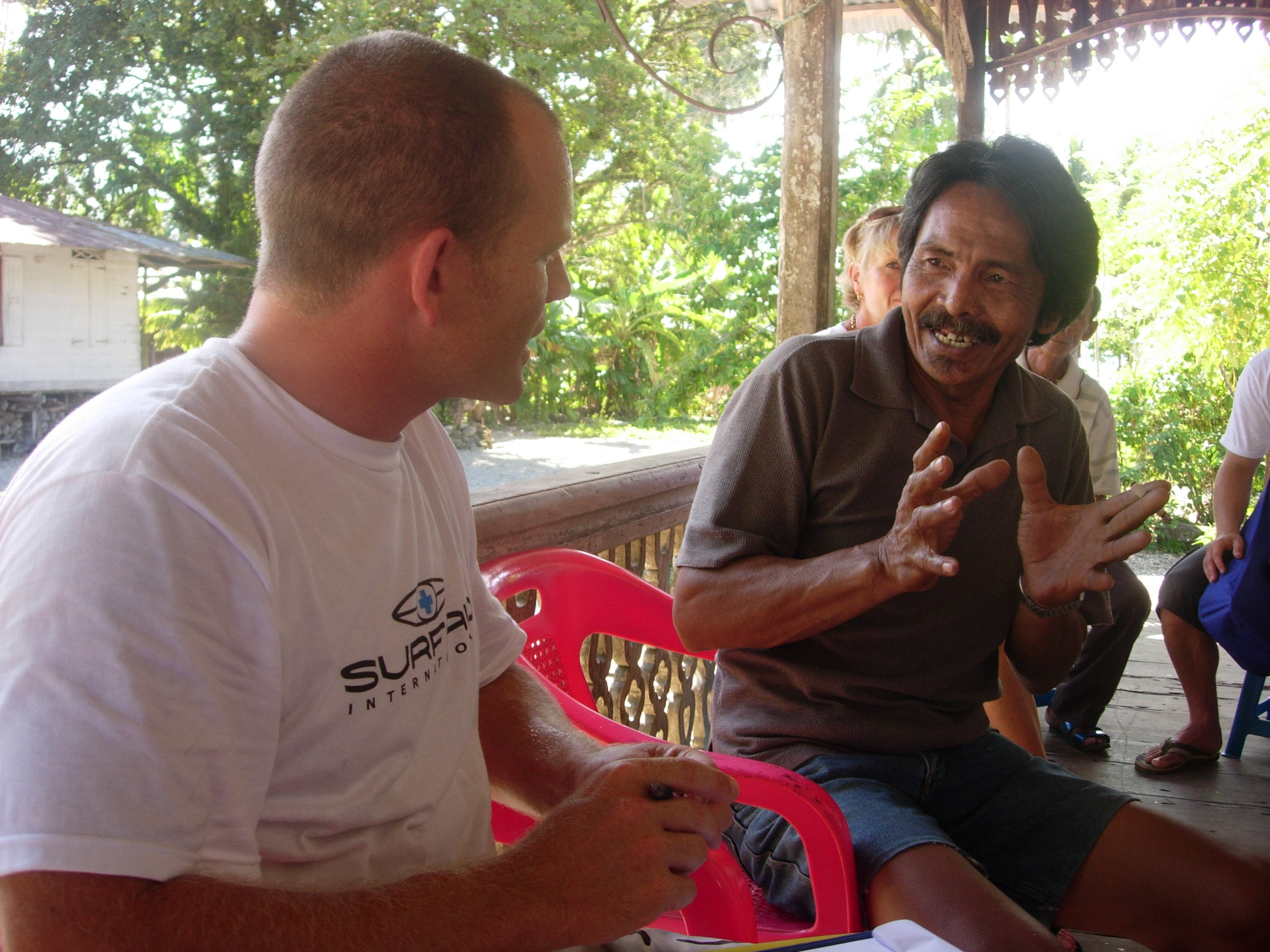 Dr Ben Gordon from SurfAid conducting health checks on Hinako Island after the 2004 tsunami. SurfAid was funded by AusAID to help combat the threat of disease. Indonesia 2005. Photo: Rob Walker / AusAID